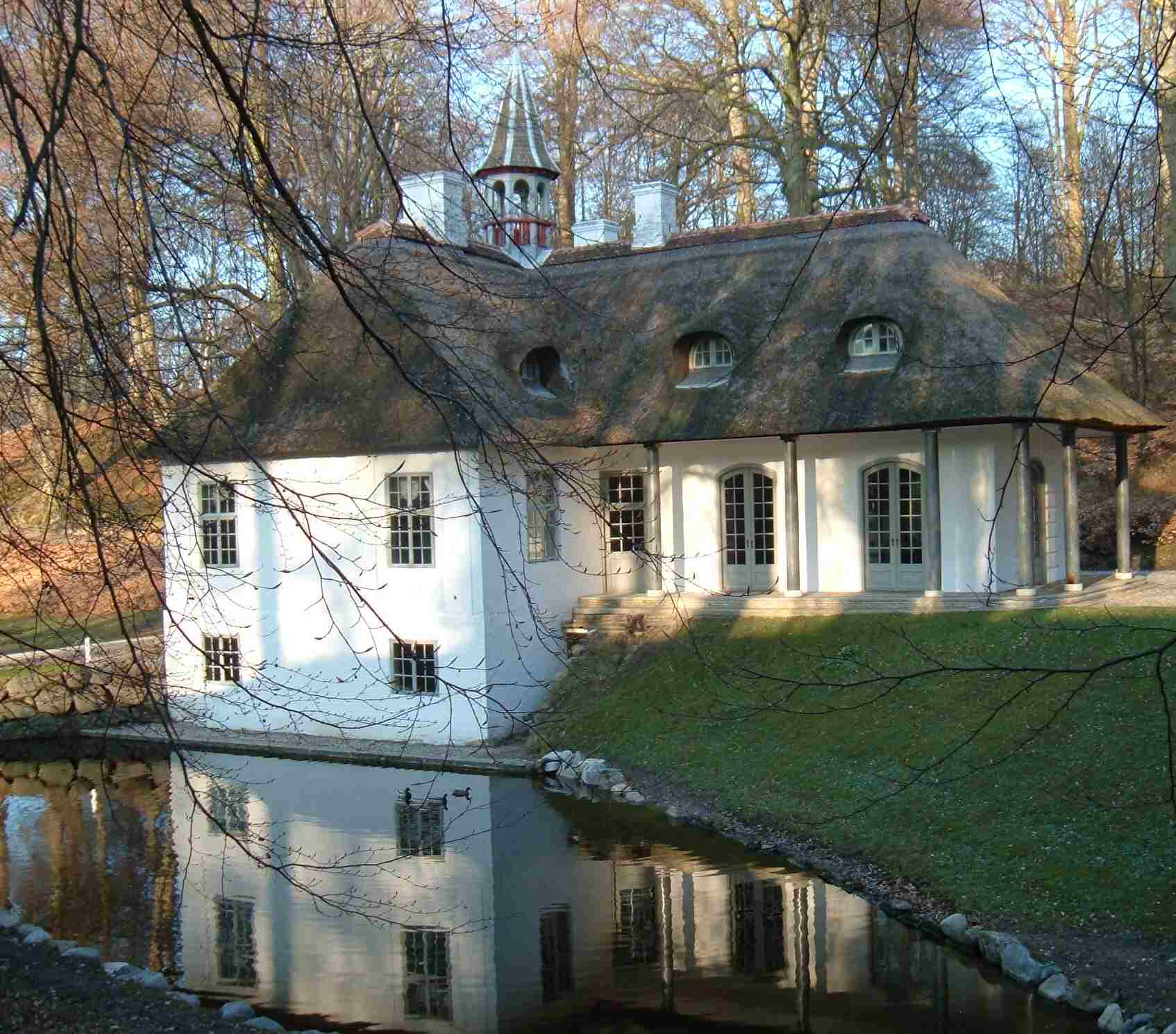 The miniature castle at Liselund, at Møns Klint on the island of Møn, Denmark. Taken by contributor, spring 2006.